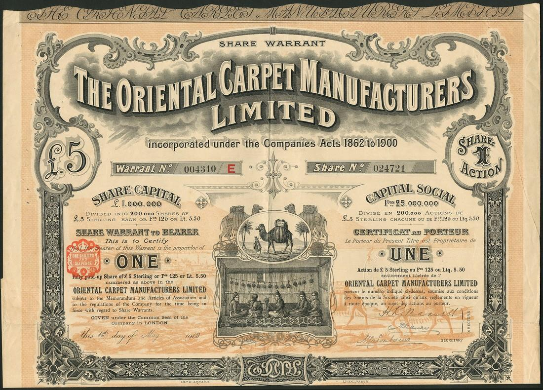 Oriental Carpet Manufacturers share certificate.